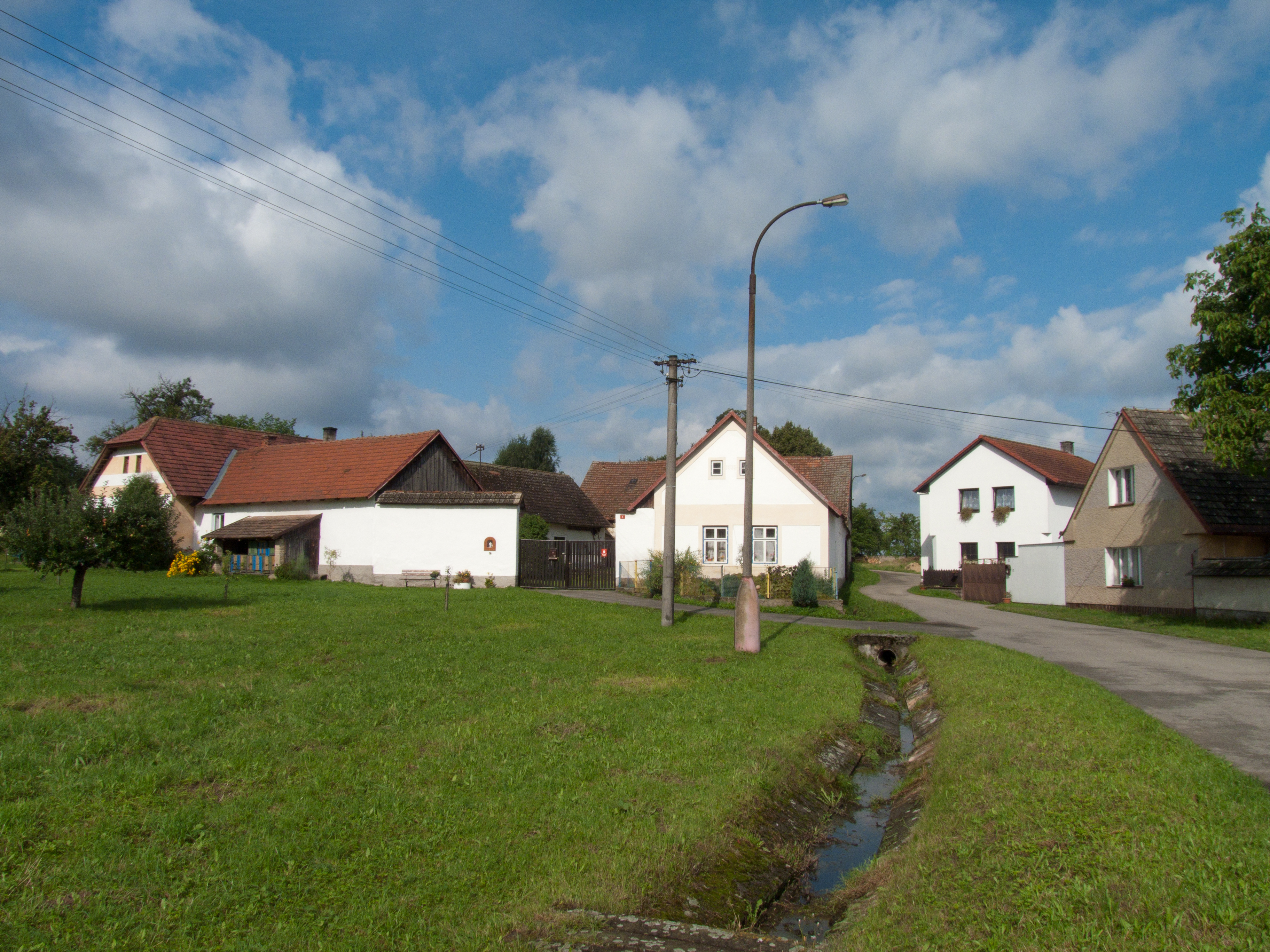 View towards house No 1 in the village of Dolní Hrachovice, Tábor District, Czech Republic